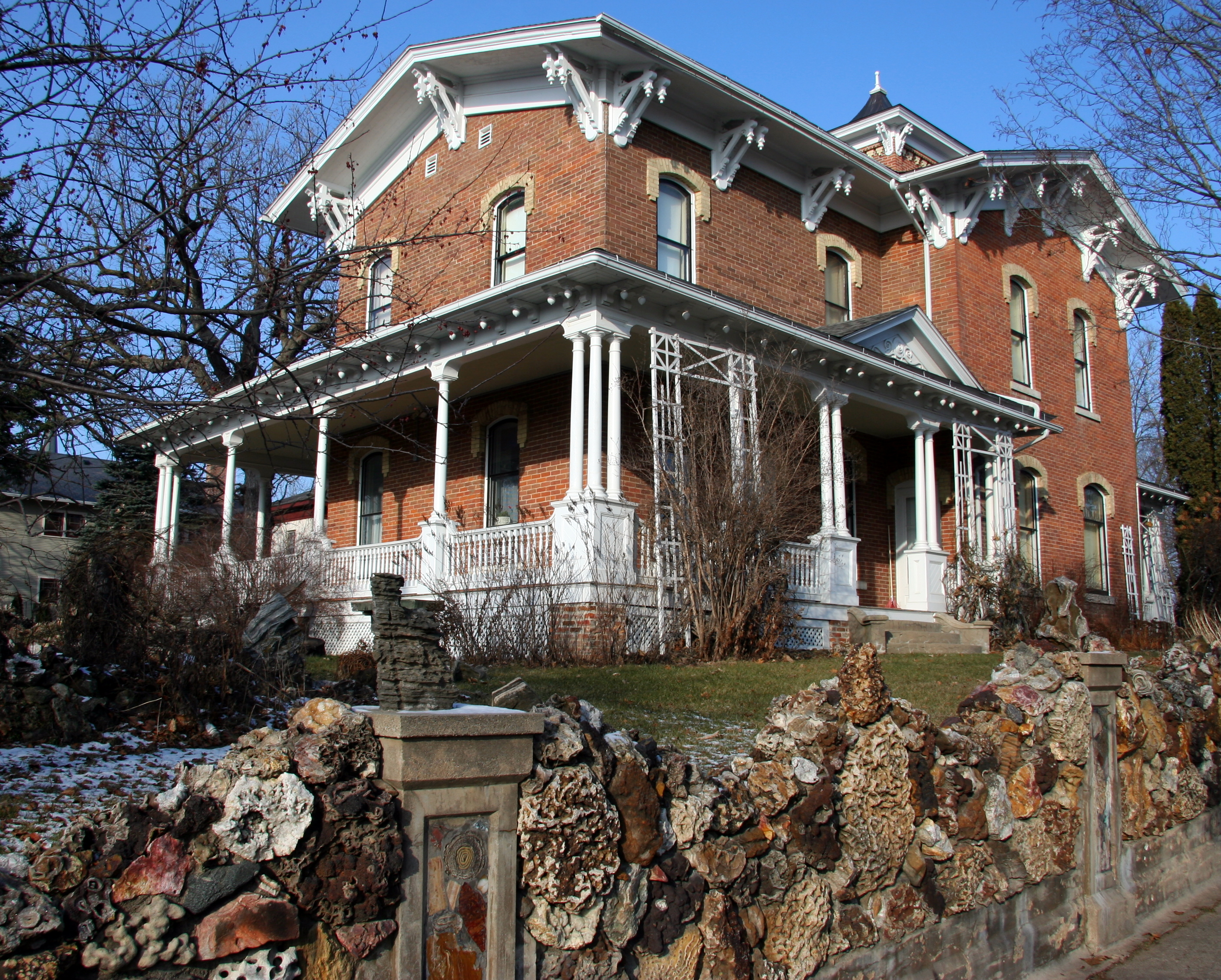 The Porter House Museum at 401 West Broadway, Decorah, Iowa, built in 1867 and listed on the National Register of Historic Places as the Ellsworth-Porter House, seen with its ornate stone wall from the sidewalk on River Street